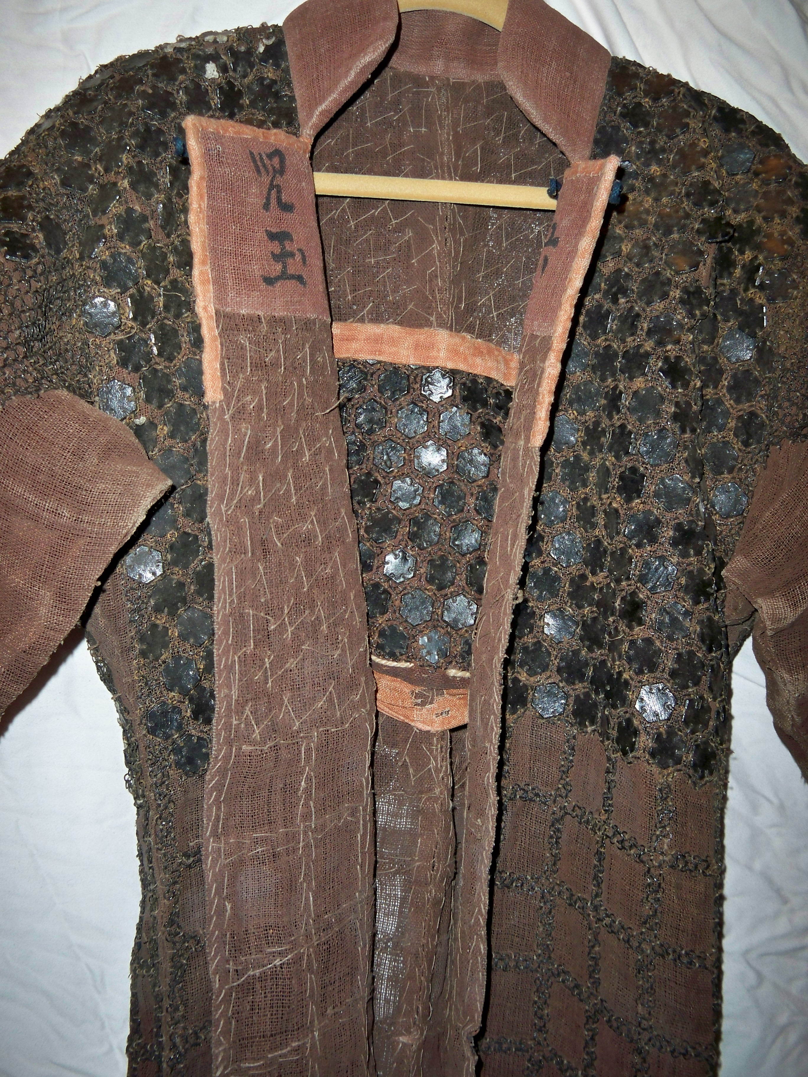 Japanese(samurai)Edo period armored jacket with kikko (hardened leather hexagon plates) and kusari (Japanese chain armor)